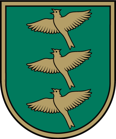 Coat of arms of Ropaži municipalityLatviešu: Ropažu novada ģerbonis